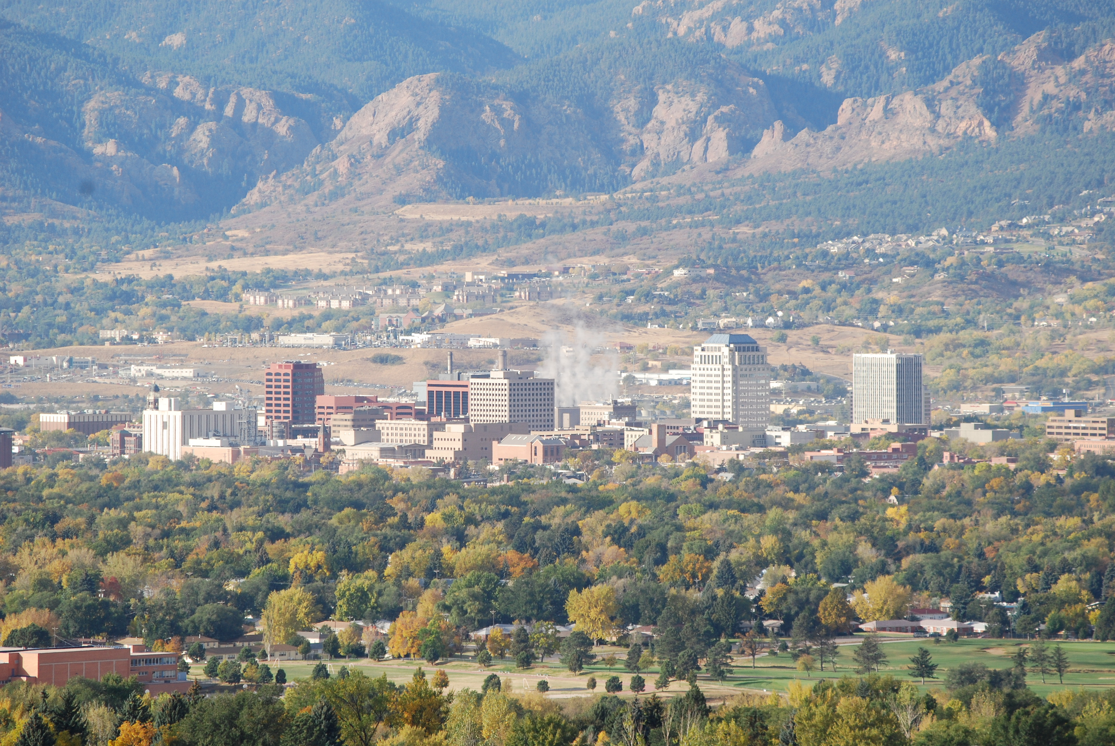 Colorado Springs downtown author: cpt.spock on flickr source: url: url for license